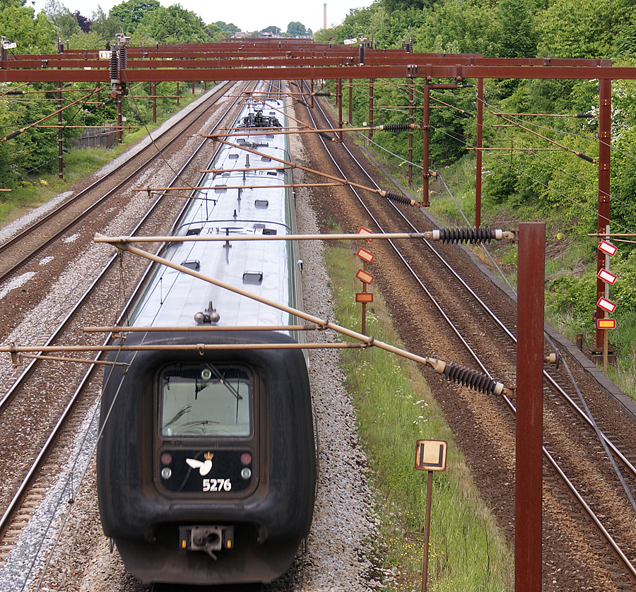 Railway electrification in Denmark. Photo taken from walking bridge on southwestern outskirts of Roskilde, Denmark